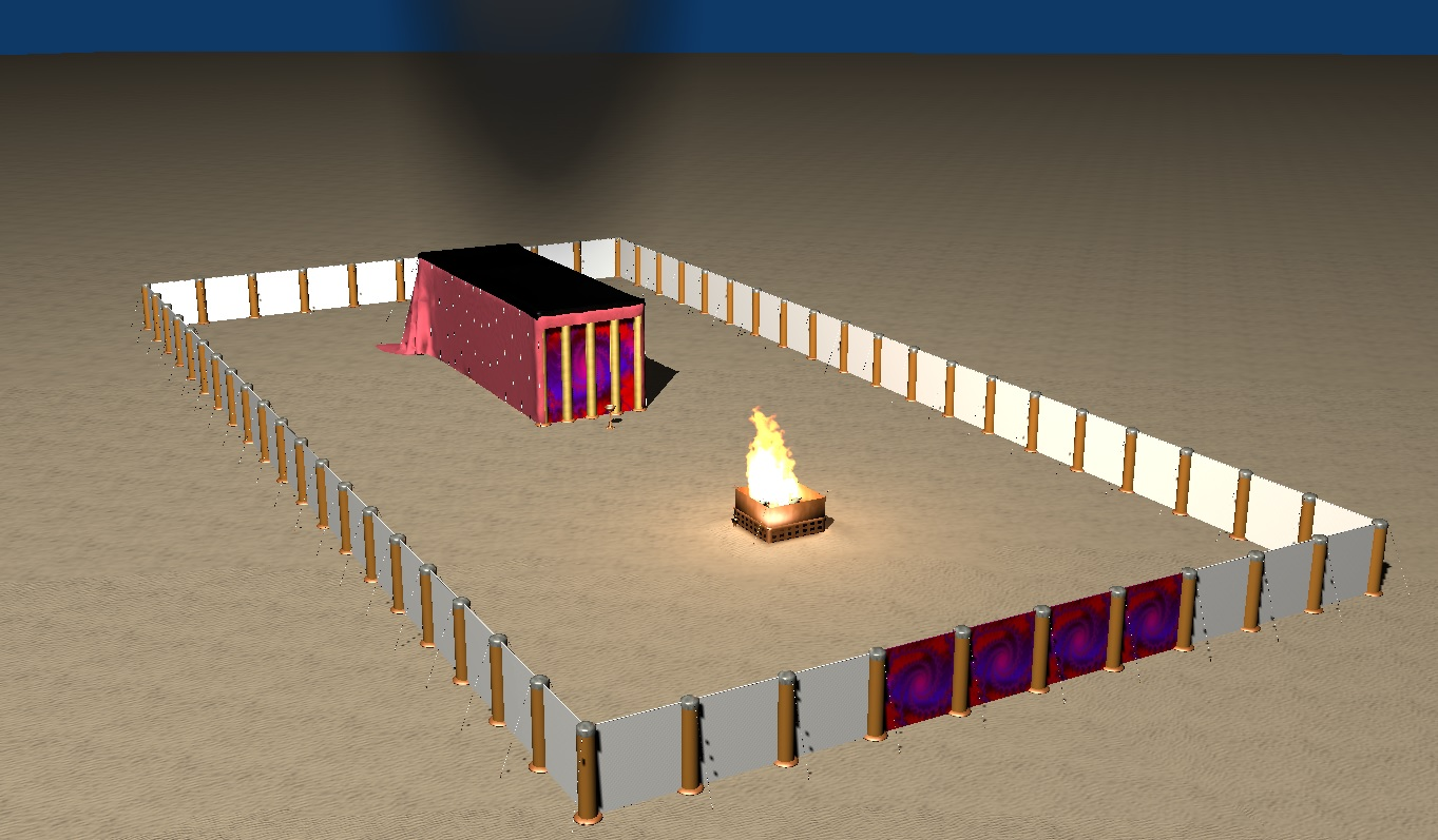 Tabernacle Mishkan Tent